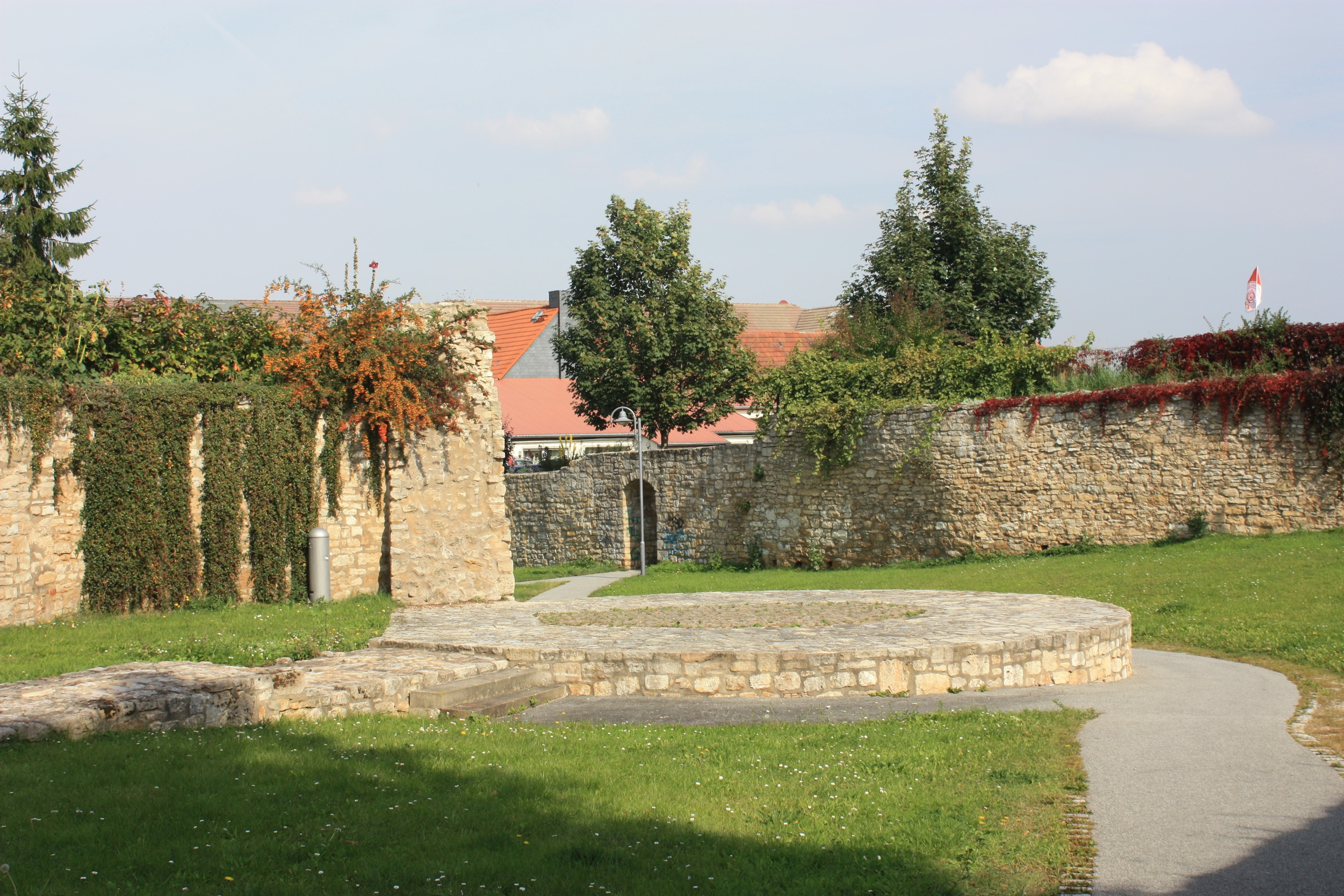 Querfurt, parts of the city wall